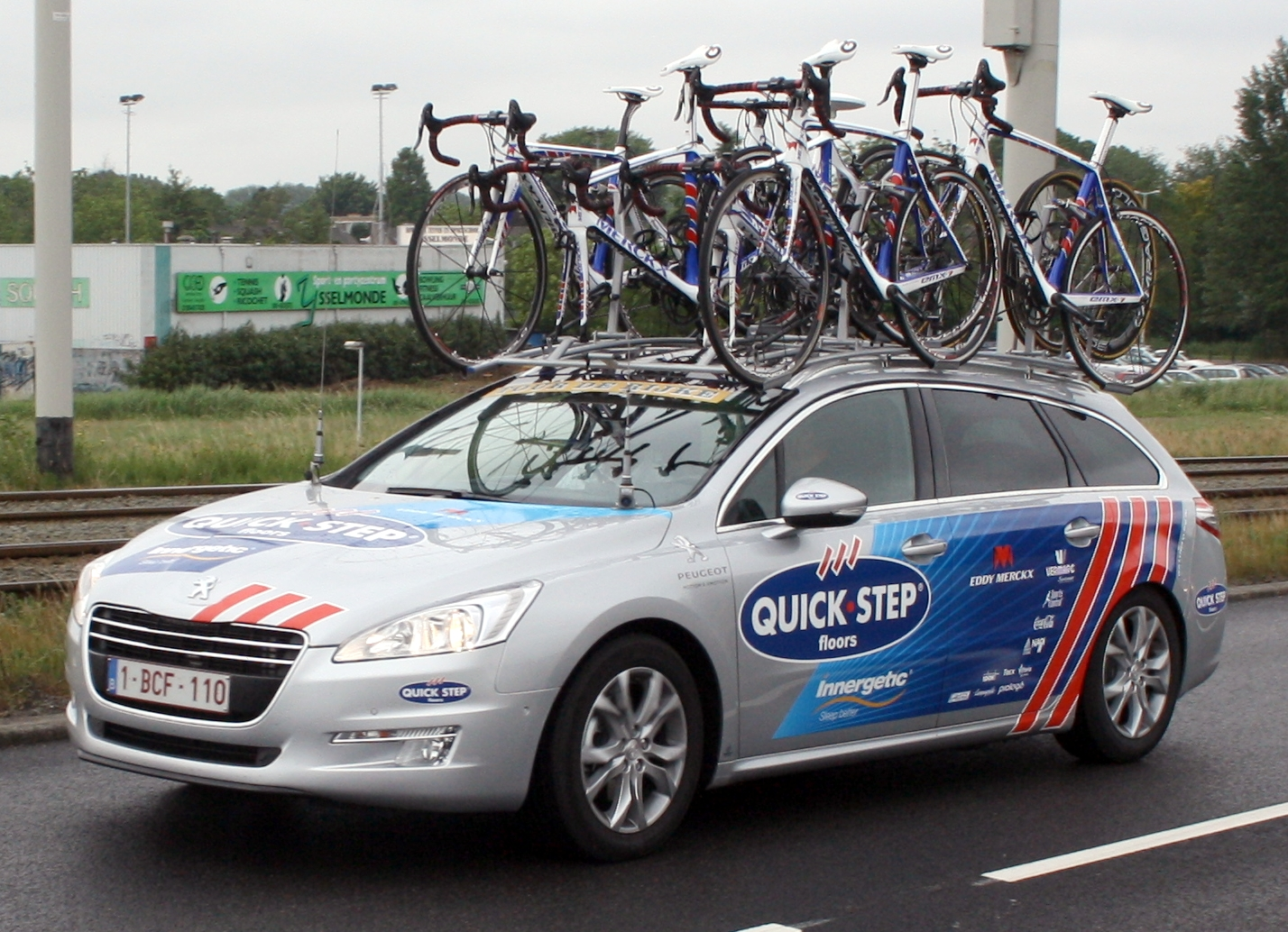 Quickstep team car at the 2011 Tour de Rijke